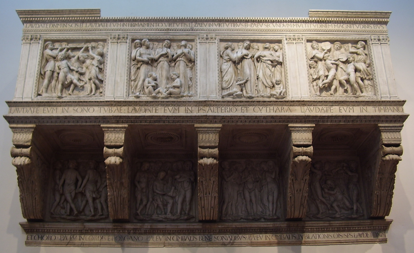 Cantoria by Luca della Robbia, in the "Opera del Duomo Museum in Florence, Italy Firenze.